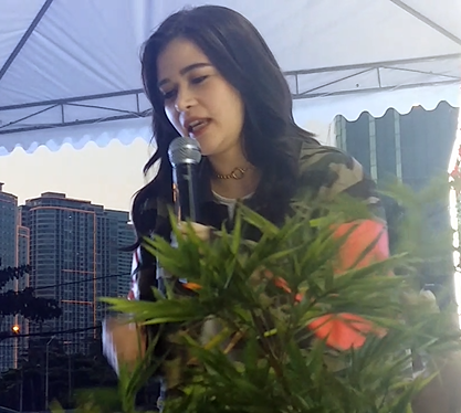 Bella Padilla performing at MMDA Anniversary in November 2016